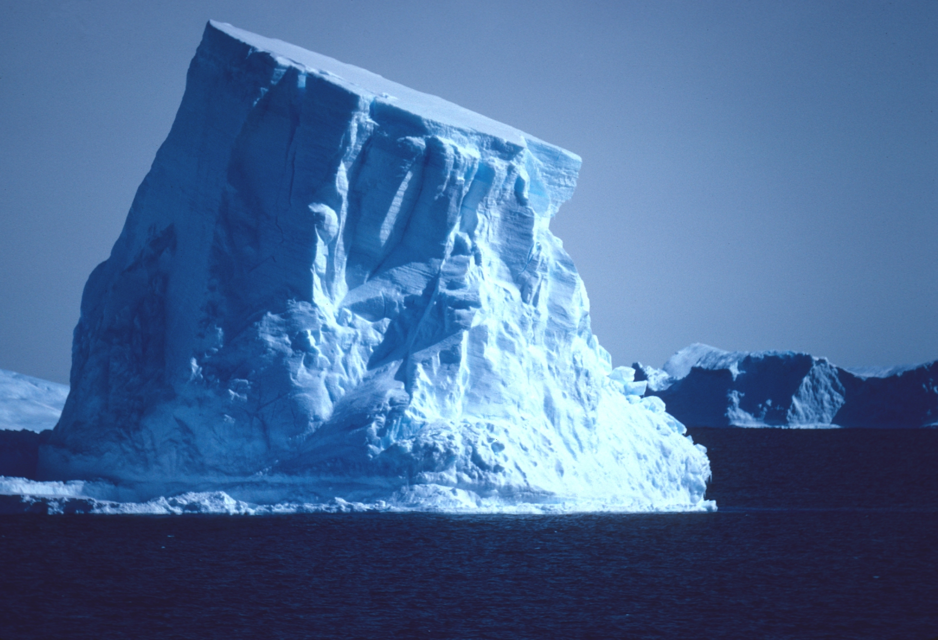 New iceberg. Antarctica, Iceberg Alley near Mawson.